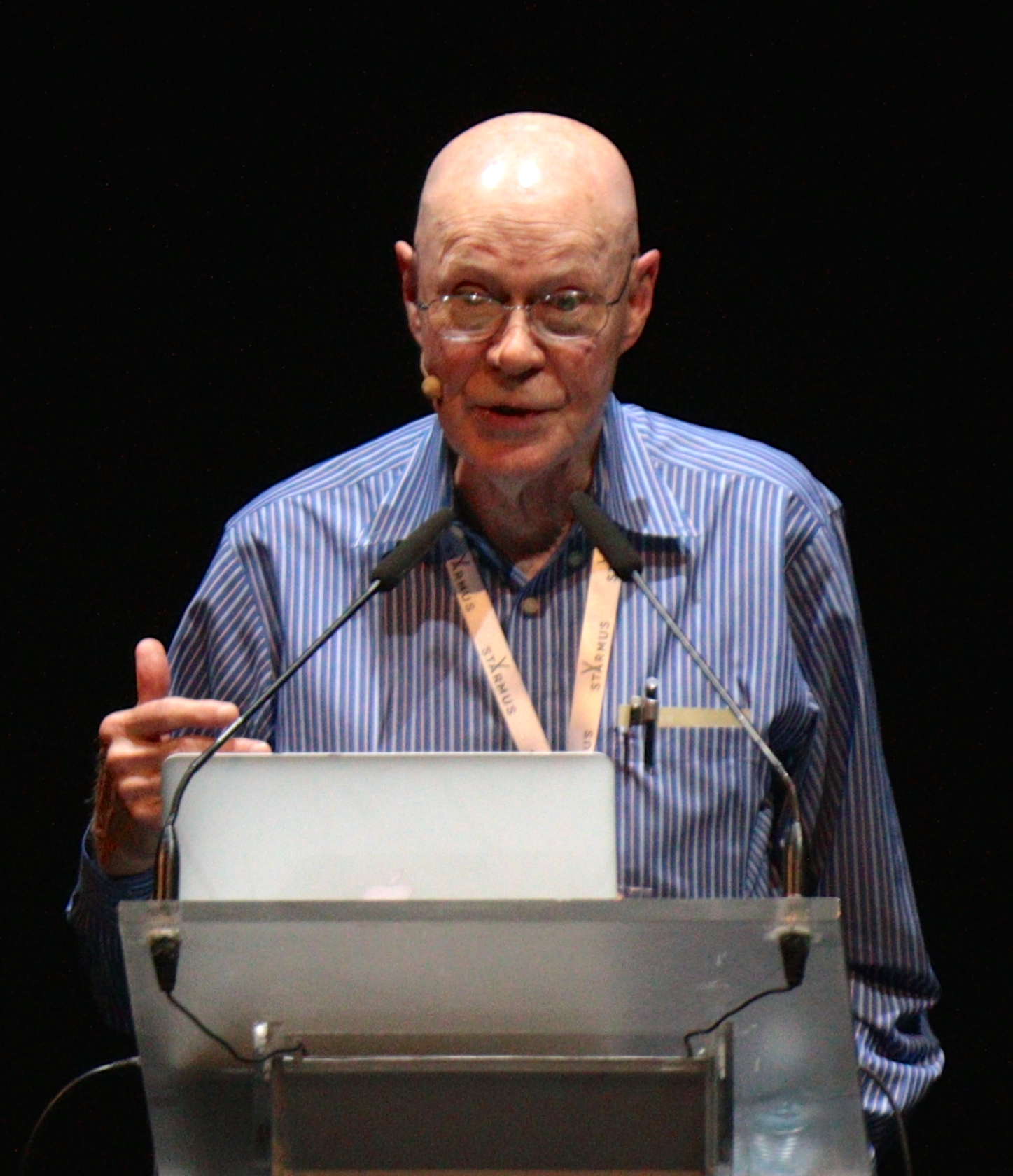 Starmus 2016. Tenerife, Canary Islands.